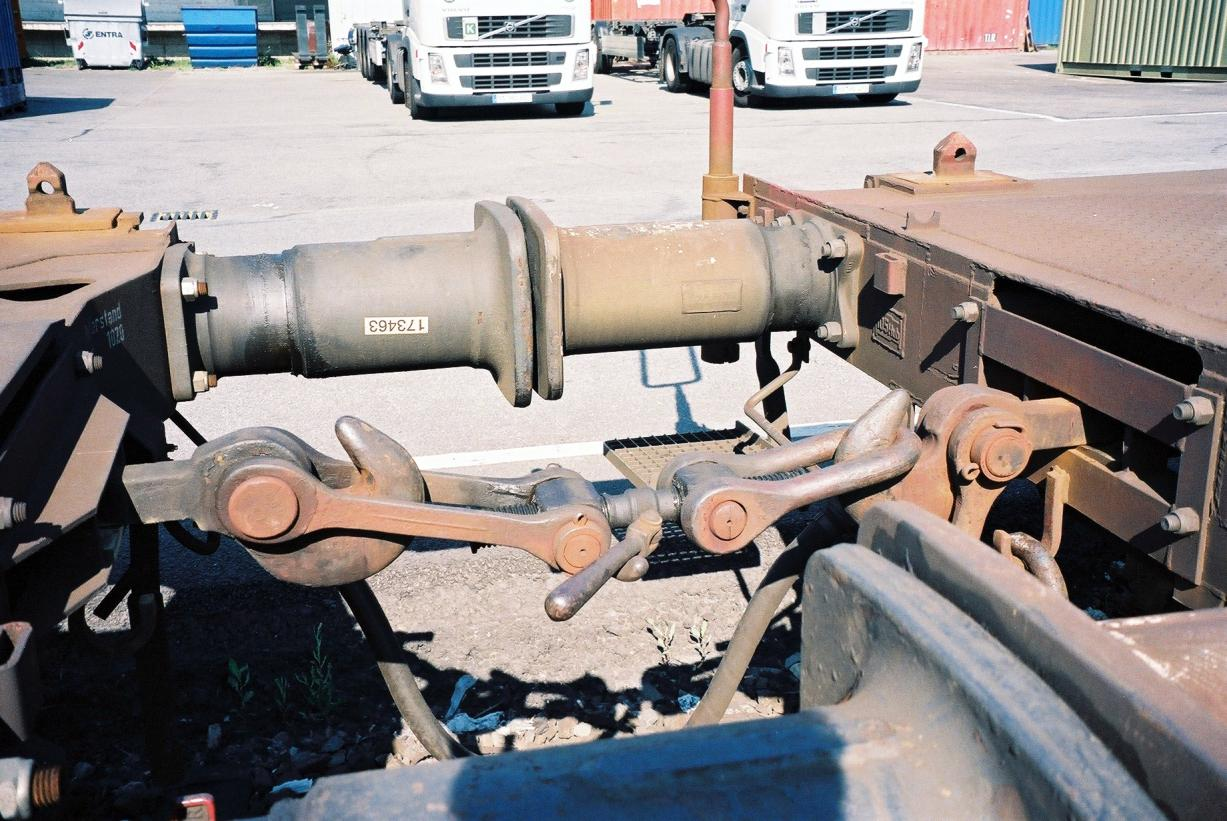 Screw coupler for railway cars.